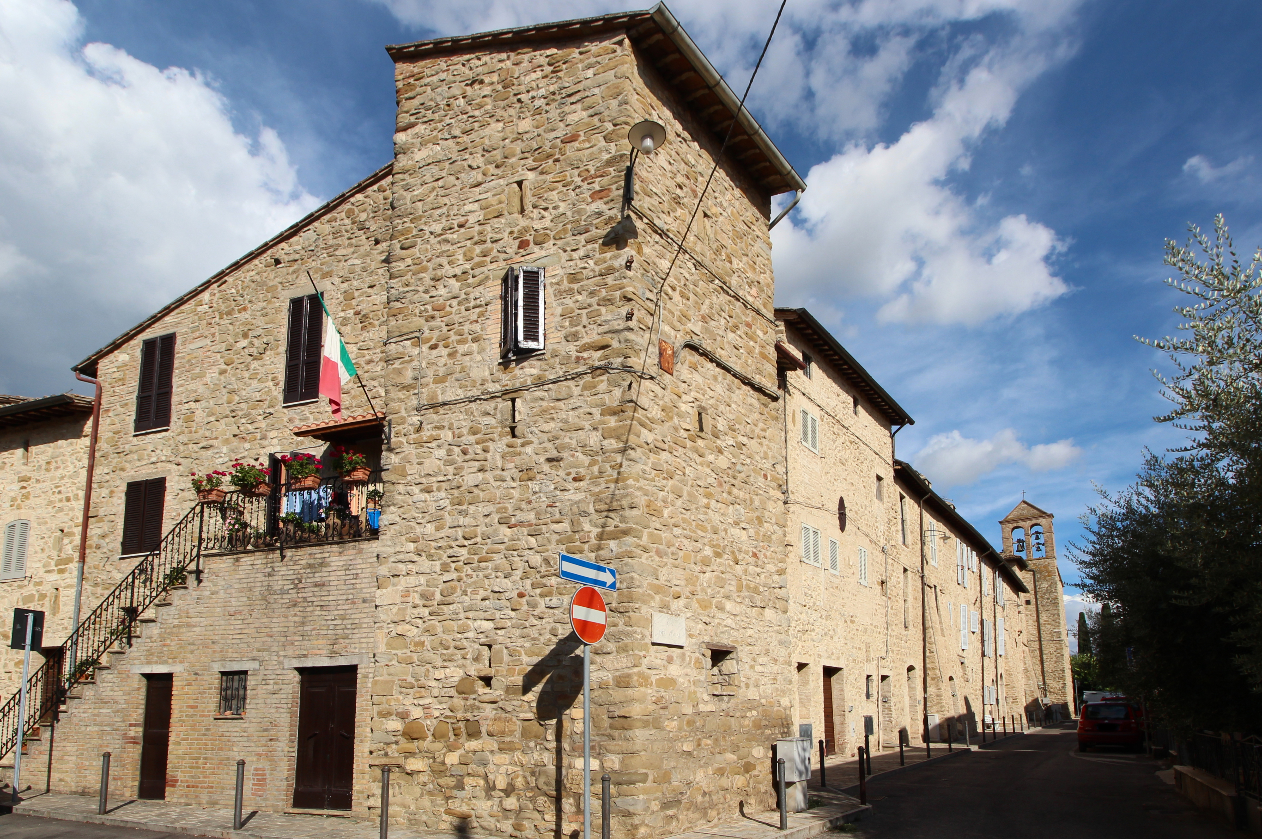 Palazzo, hamlet of Assisi, Province of Perugia, Umbria, Italy